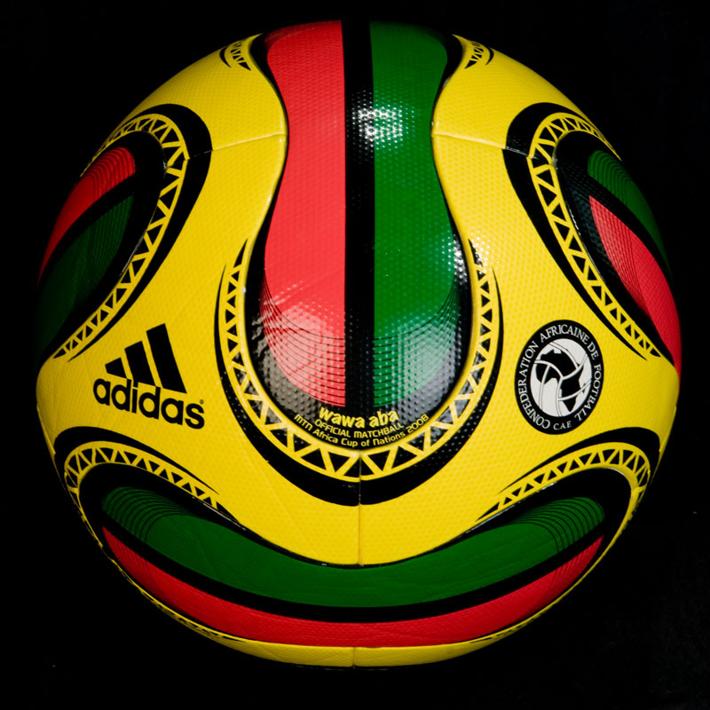 Adidas wawa aba. Official Matchball of the Africa Cup of Nations 2008.